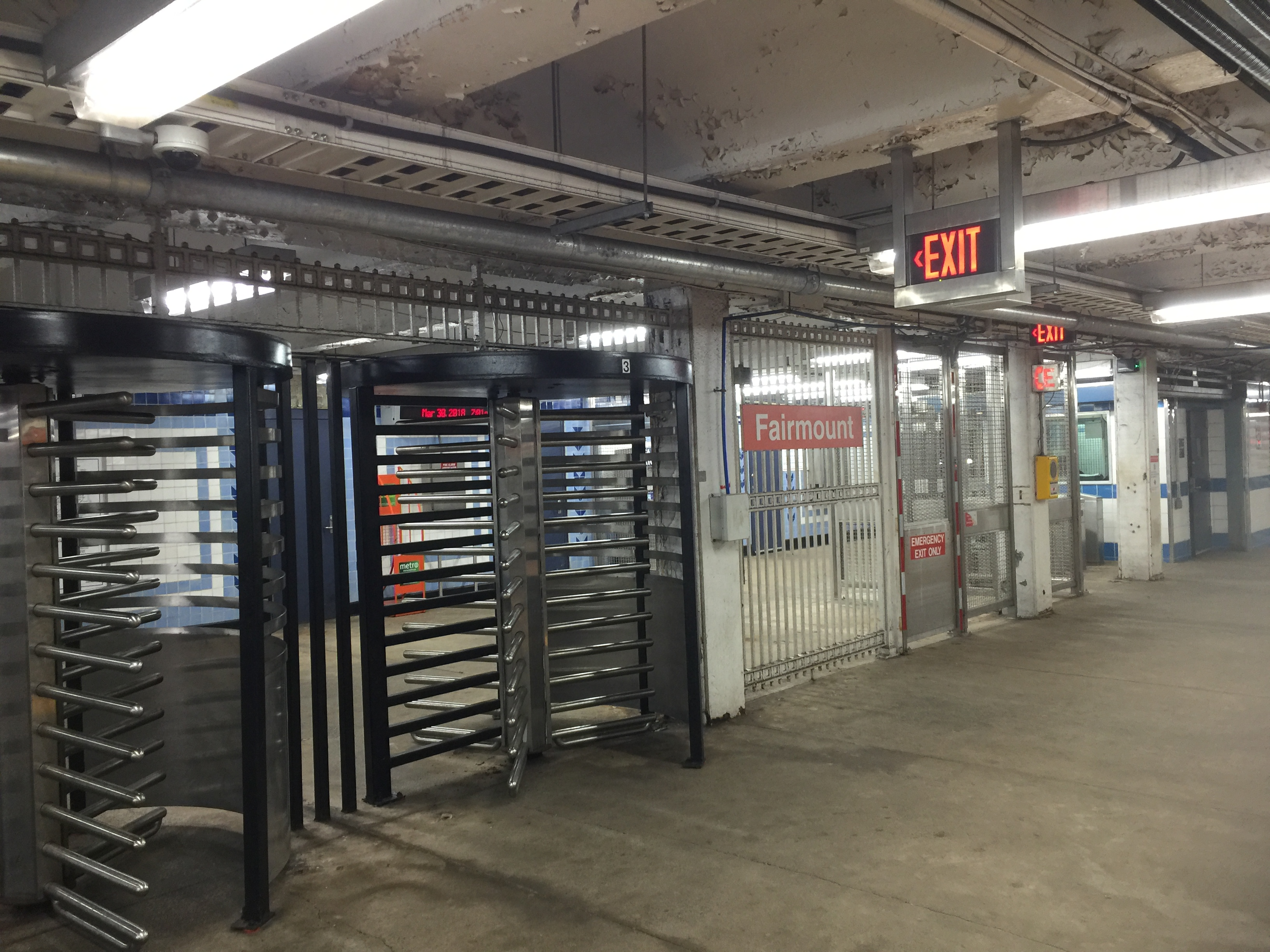 Fairmountstation on the Broad Street Line.